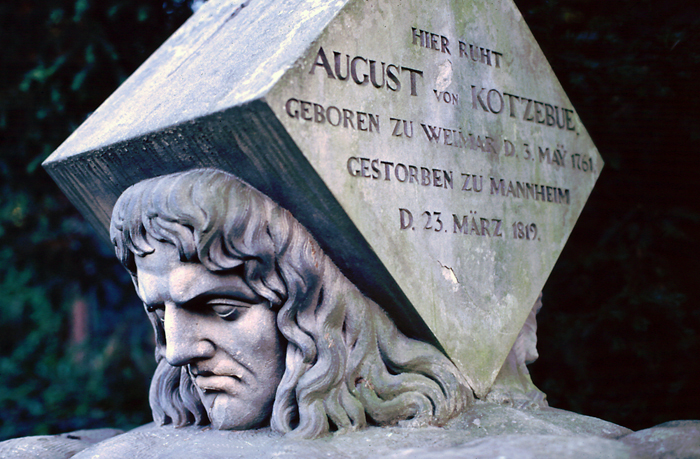 Tombstone of poet August von Kotzebue at the main cemetary of Mannheim, Germany